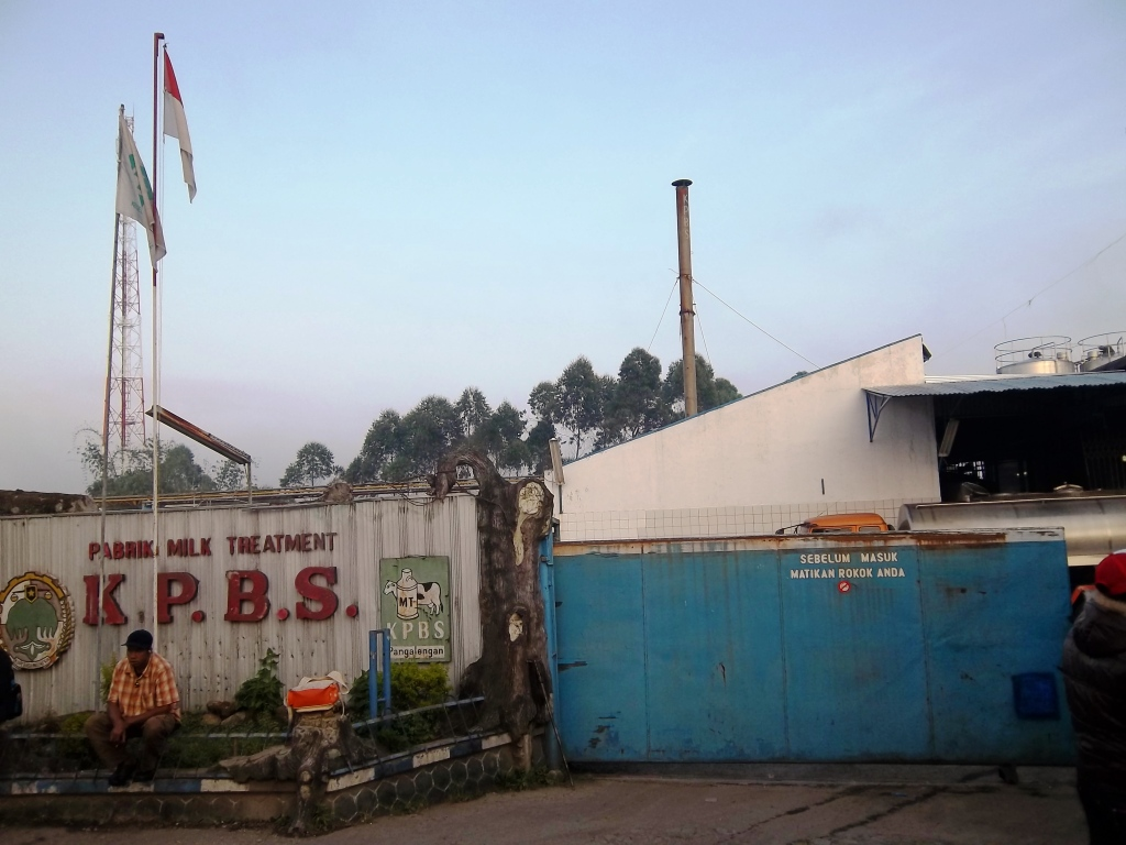 Milk Treatment Facility belongs to KPBS Pangalengan